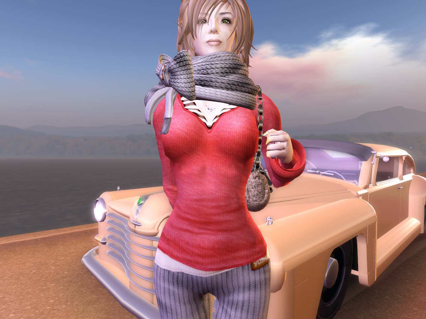 Virtual girl in leggings